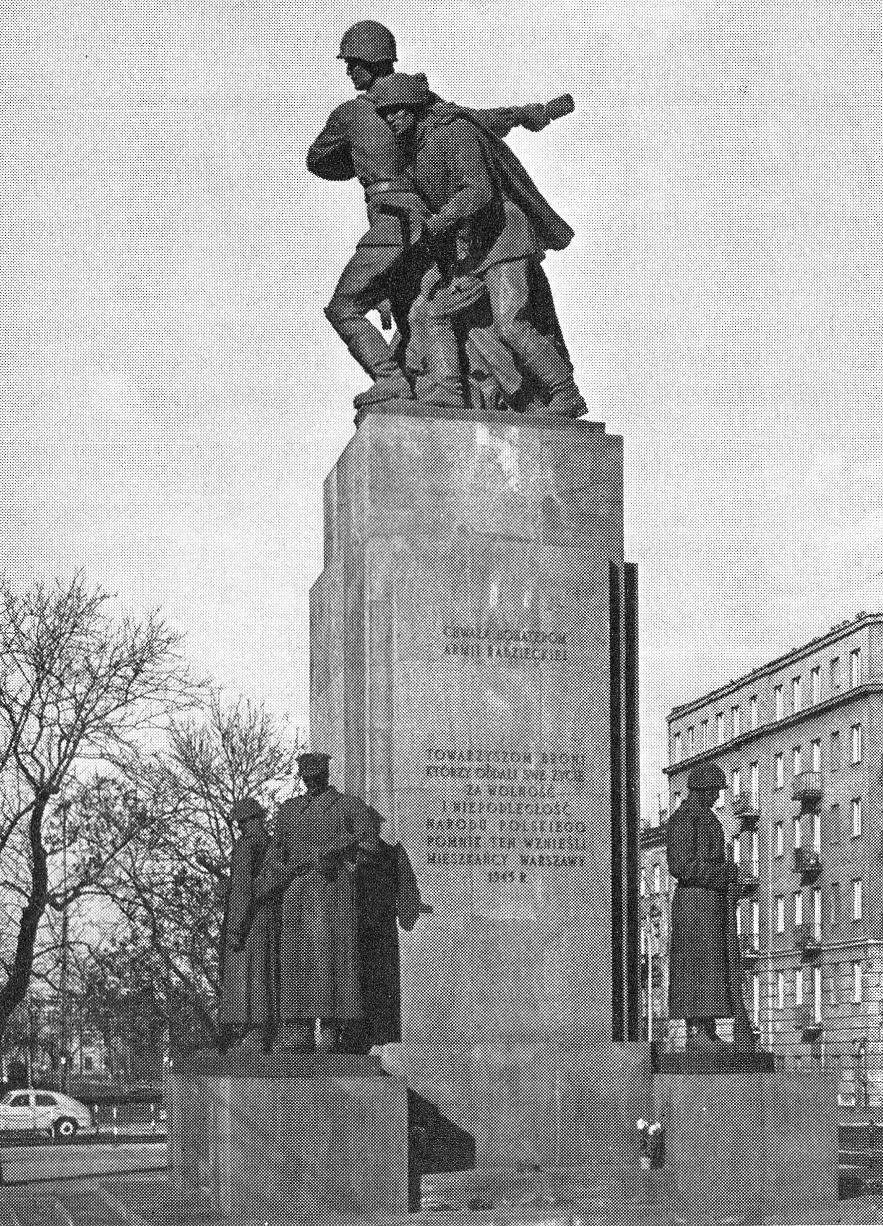 Brotherhood in Arms monument in Warsaw